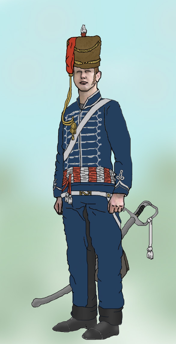 A British Hussar from the 7th Queen Own regiment, 1815.